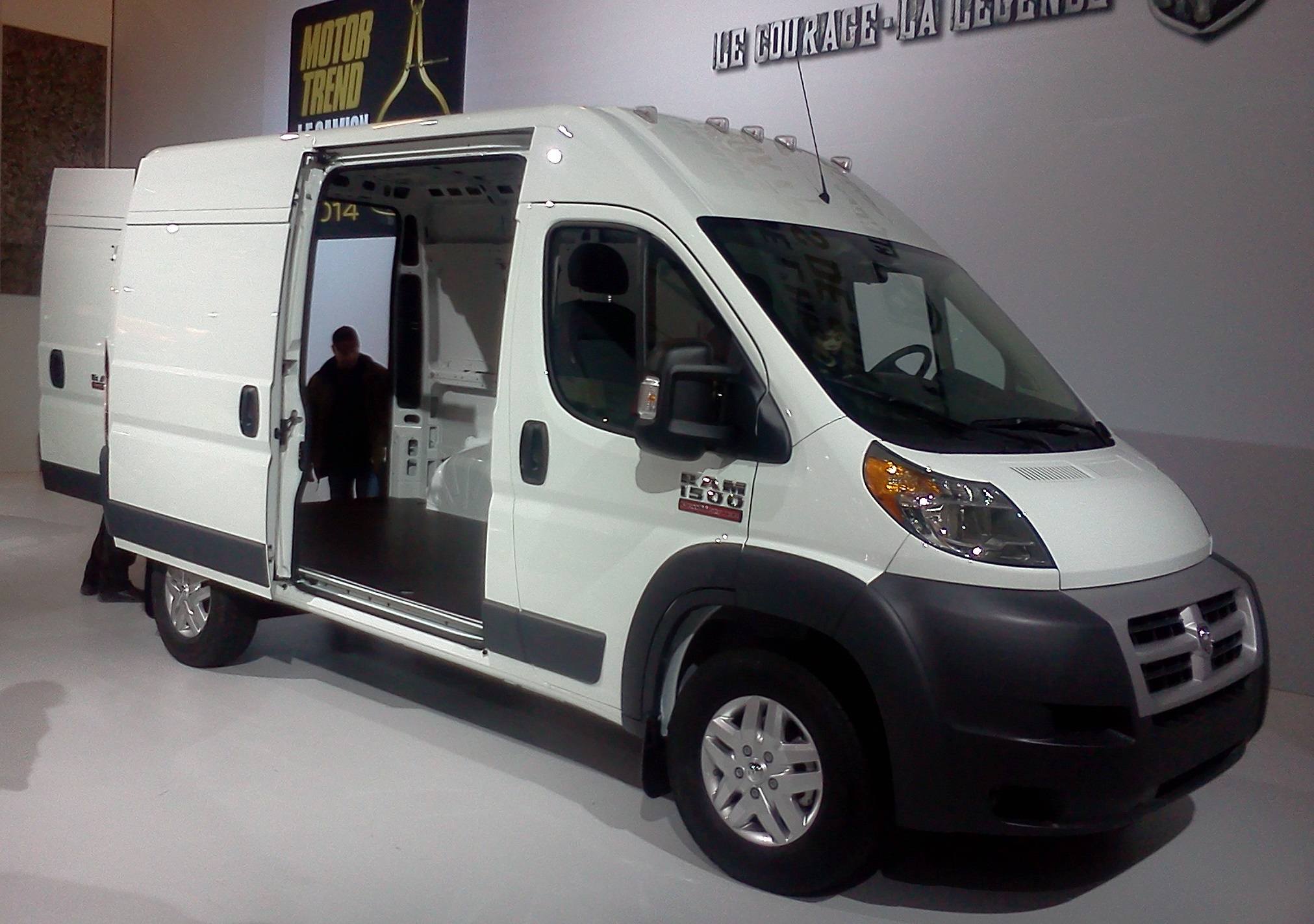 2014 Ram ProMaster photographed in Montreal, Quebec, Canada at the 2014 Montreal International Auto Show.